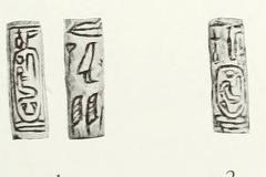 A pair of cylinder seals bearing the name of pharaoh Sedjefakare Kay-Amenemhat VII, both with the inscription: Sedjefakare, beloved by Sobek lord of Sumenu. Blue-glazed steatite, 13th Dynasty, now at the Petrie Museum. Left: UC11533, from Harageh in the Faiyum; Right: UC11534, from Lahun in the Faiyum.